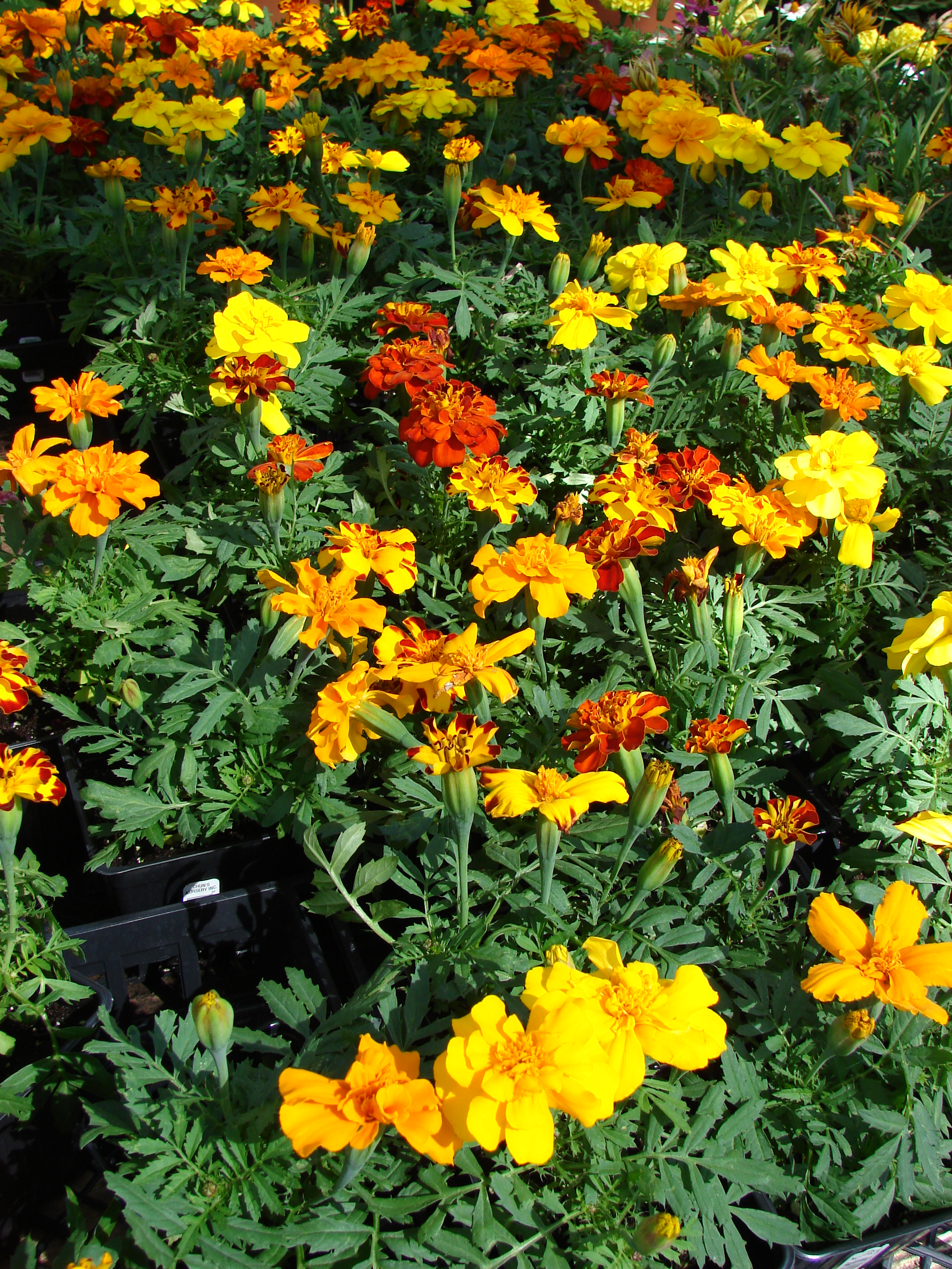 Tagetes erecta (flowering habit). Location: Maui, Home Depot Nursery Kahului